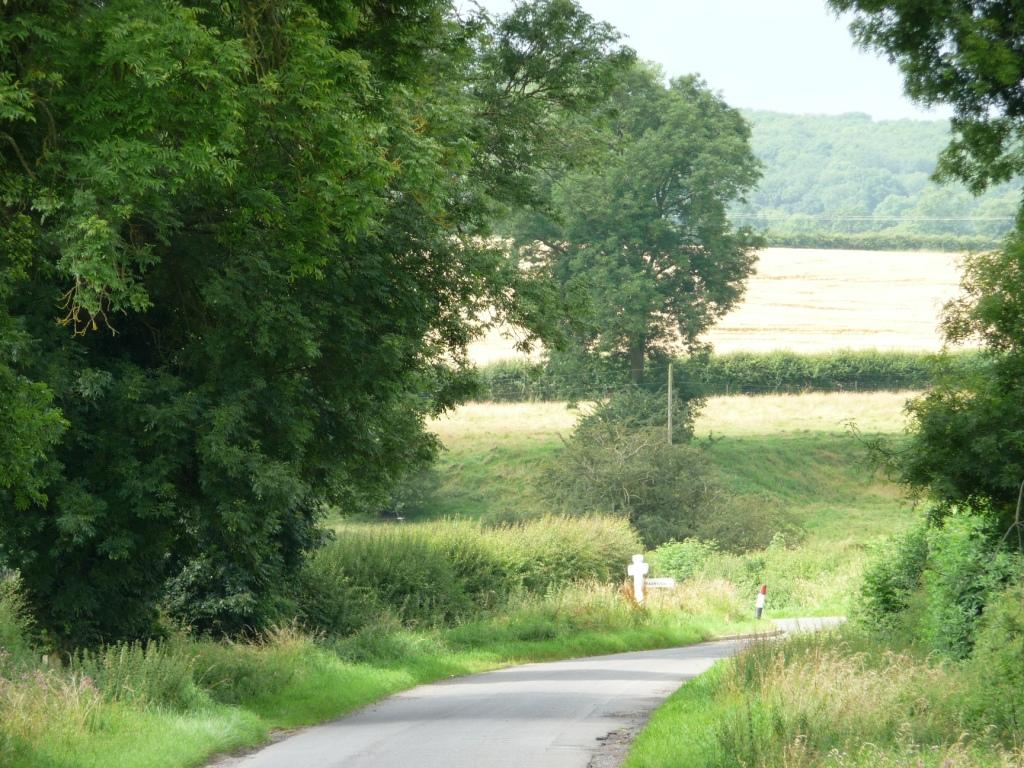 Brooke Road